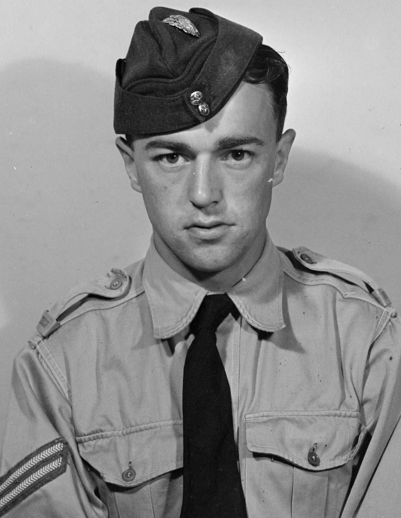 Corporal Roger Drayton, Royal New Zealand Air Force